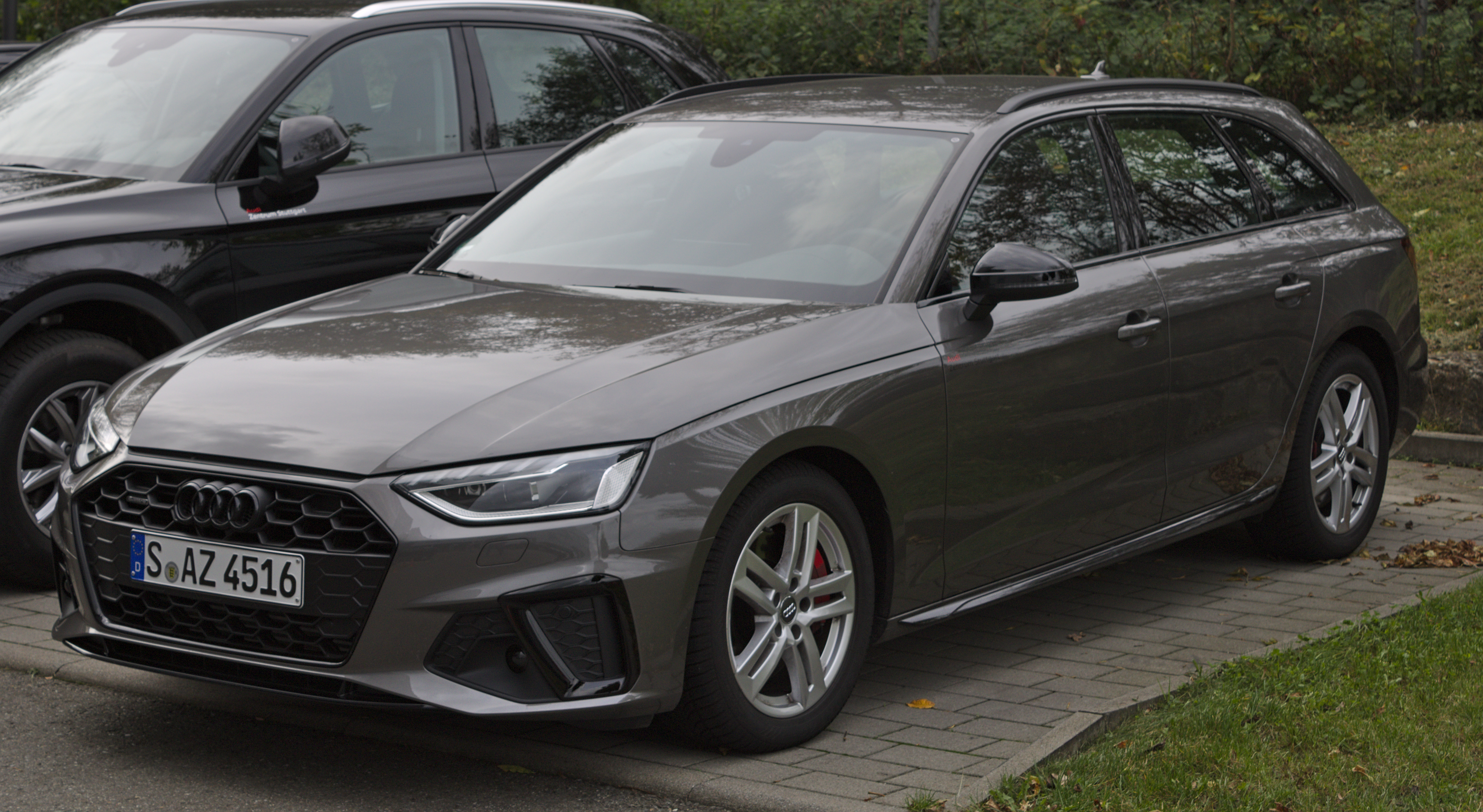 Audi_A4_Avant_B9 in Stuttgart-Vaihingen